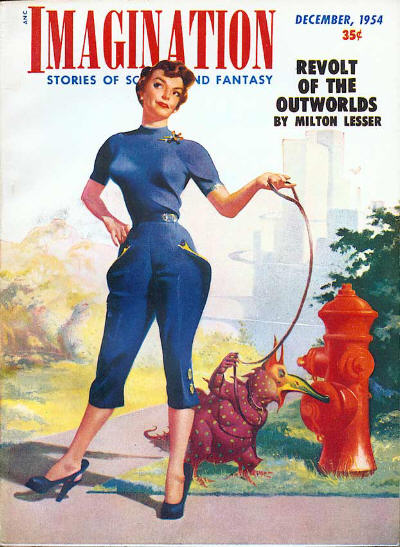 Cover of Imagination, December 1954